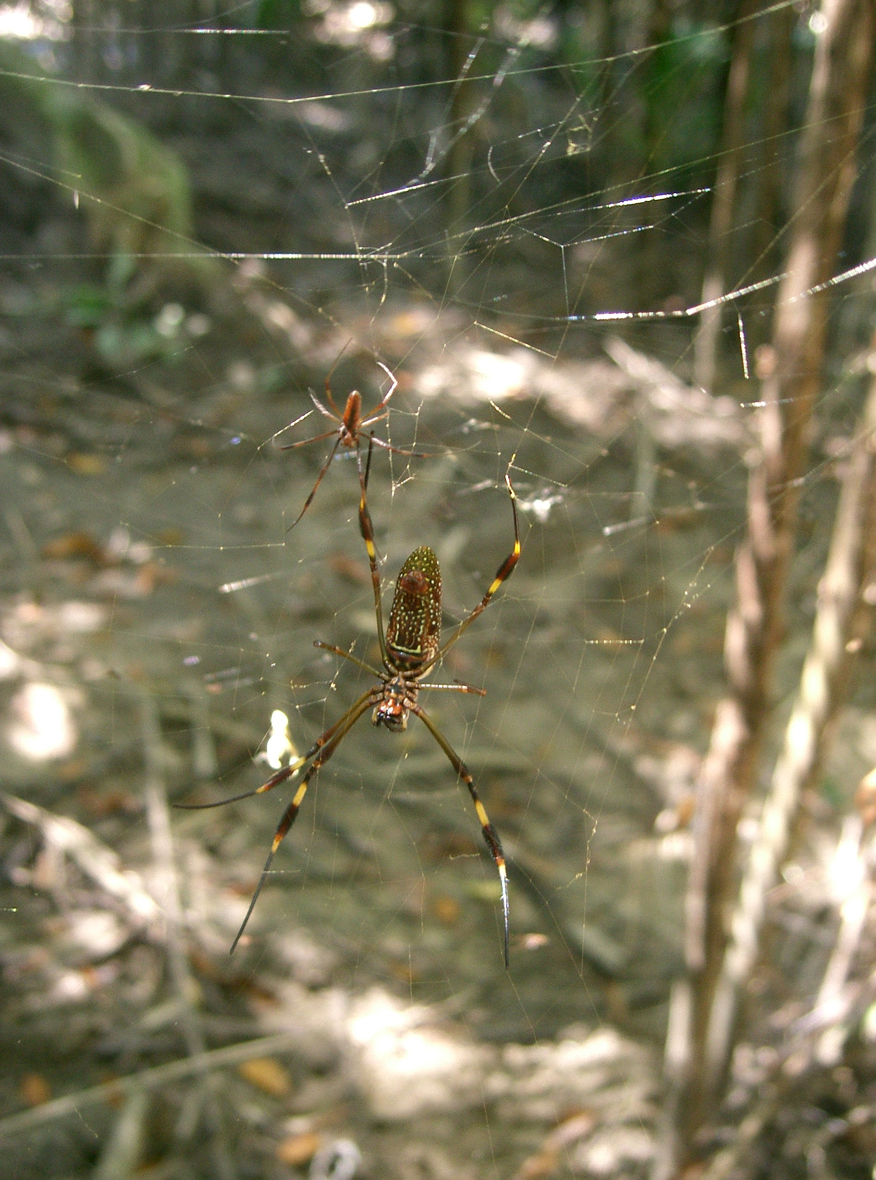 In Sendero Los Curumos, Punta Sal peninsula, Parque Nacional Jeannette Kawas, Honduras. I believe these are Golden Silk Spiders, both female (large one) and male (smaller one).